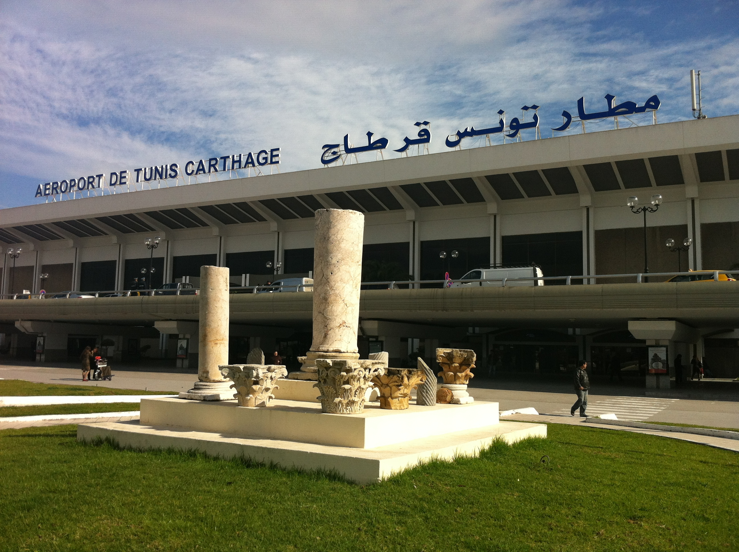 Tunis-Carthage International Airport